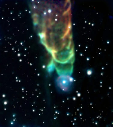 Image of Herbig-Haro object HH 49 taken by Spitzer Space Telescope